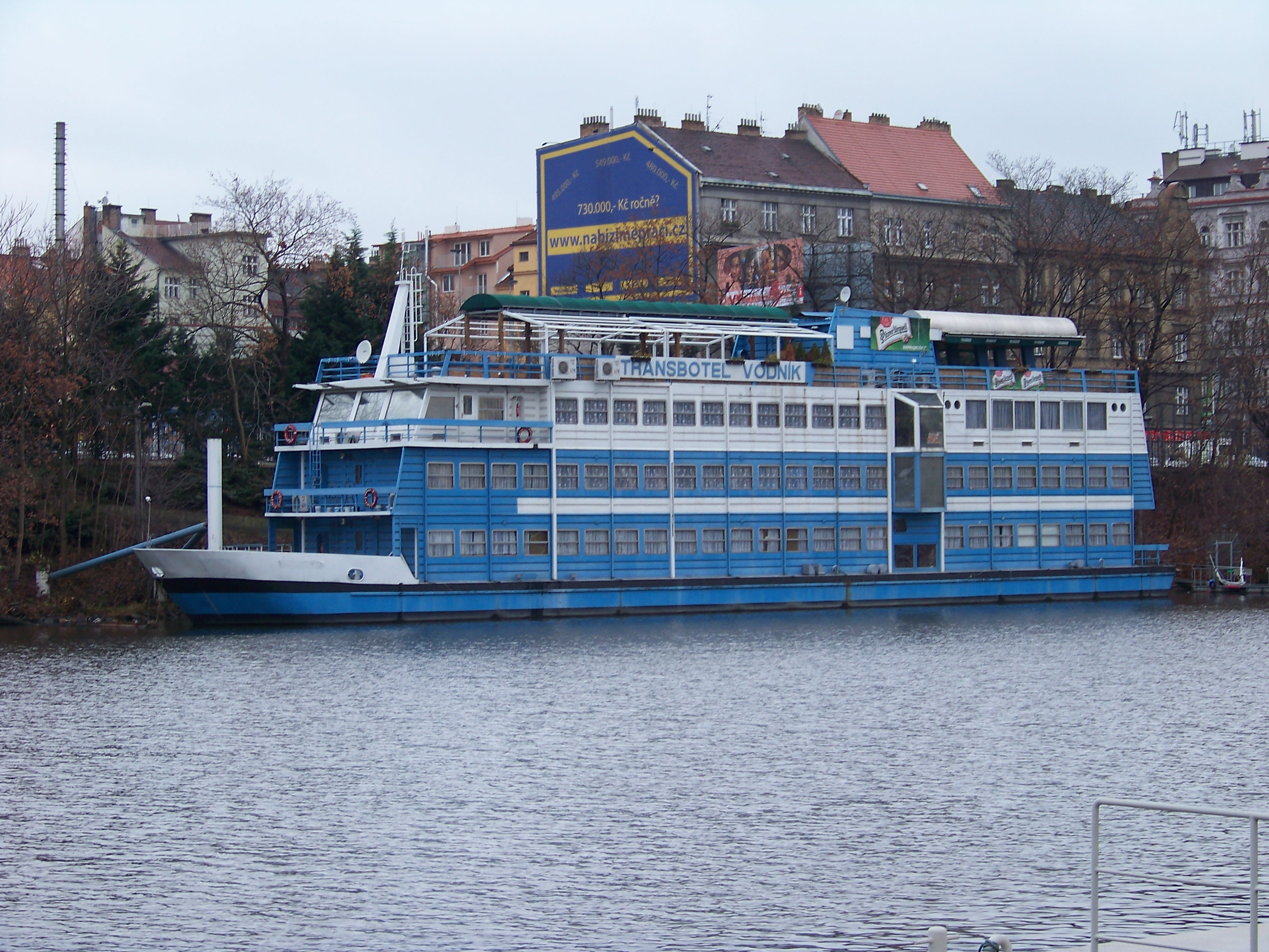 Prague, Smíchov, the Czech Republic. Transbotel Vodník.